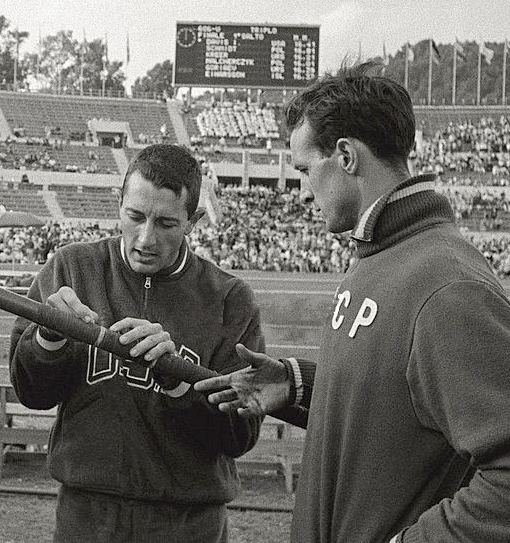 Pole vault leg of the decathlon competition at the 1960 Olympics. Left-right: Phil Mulkey and Vasili Kuznetsov